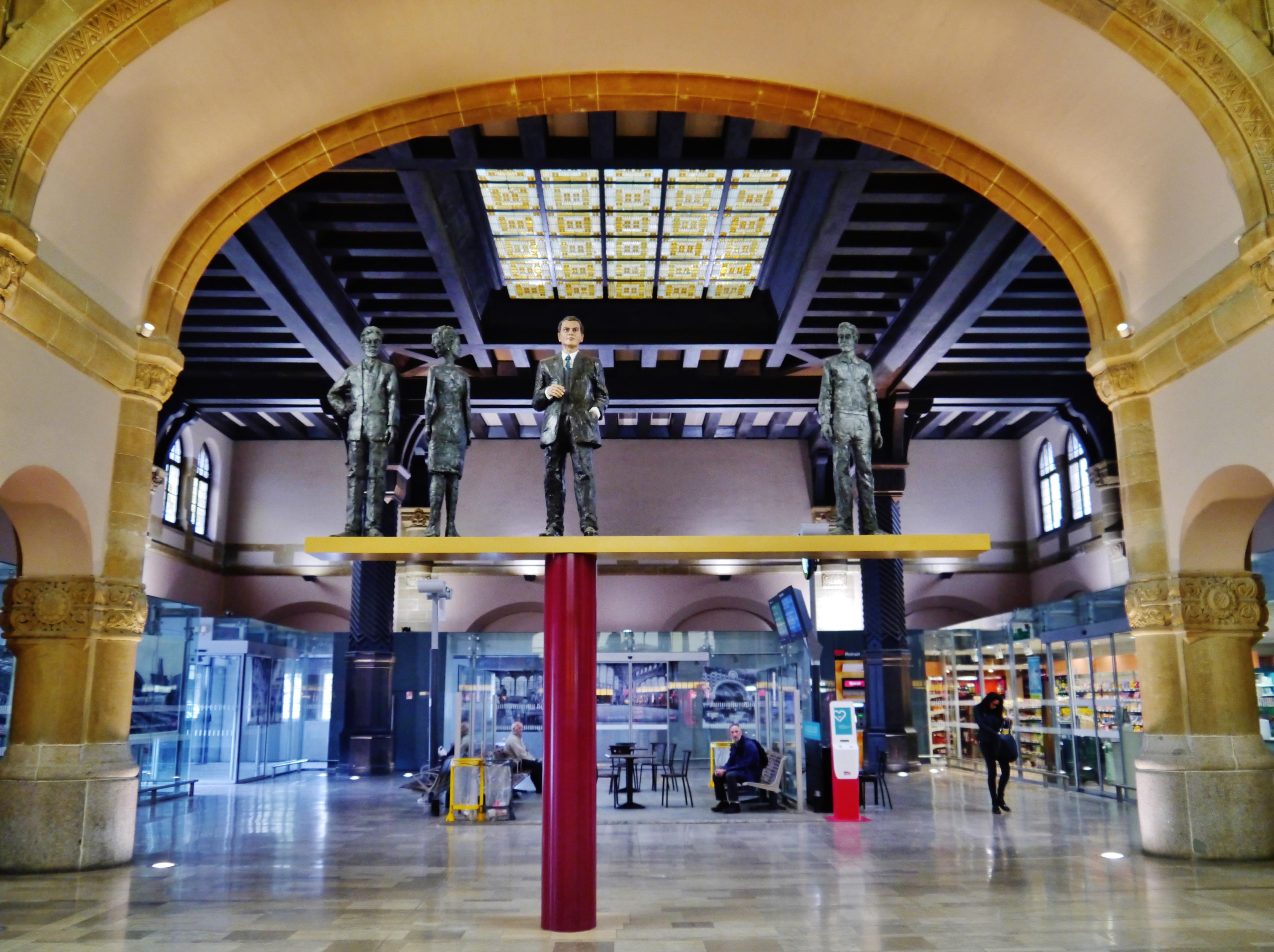 Entrance Hall of Metz Central Station, Metz, Département of Moselle, Region of Lorraine (now Grand Est), France